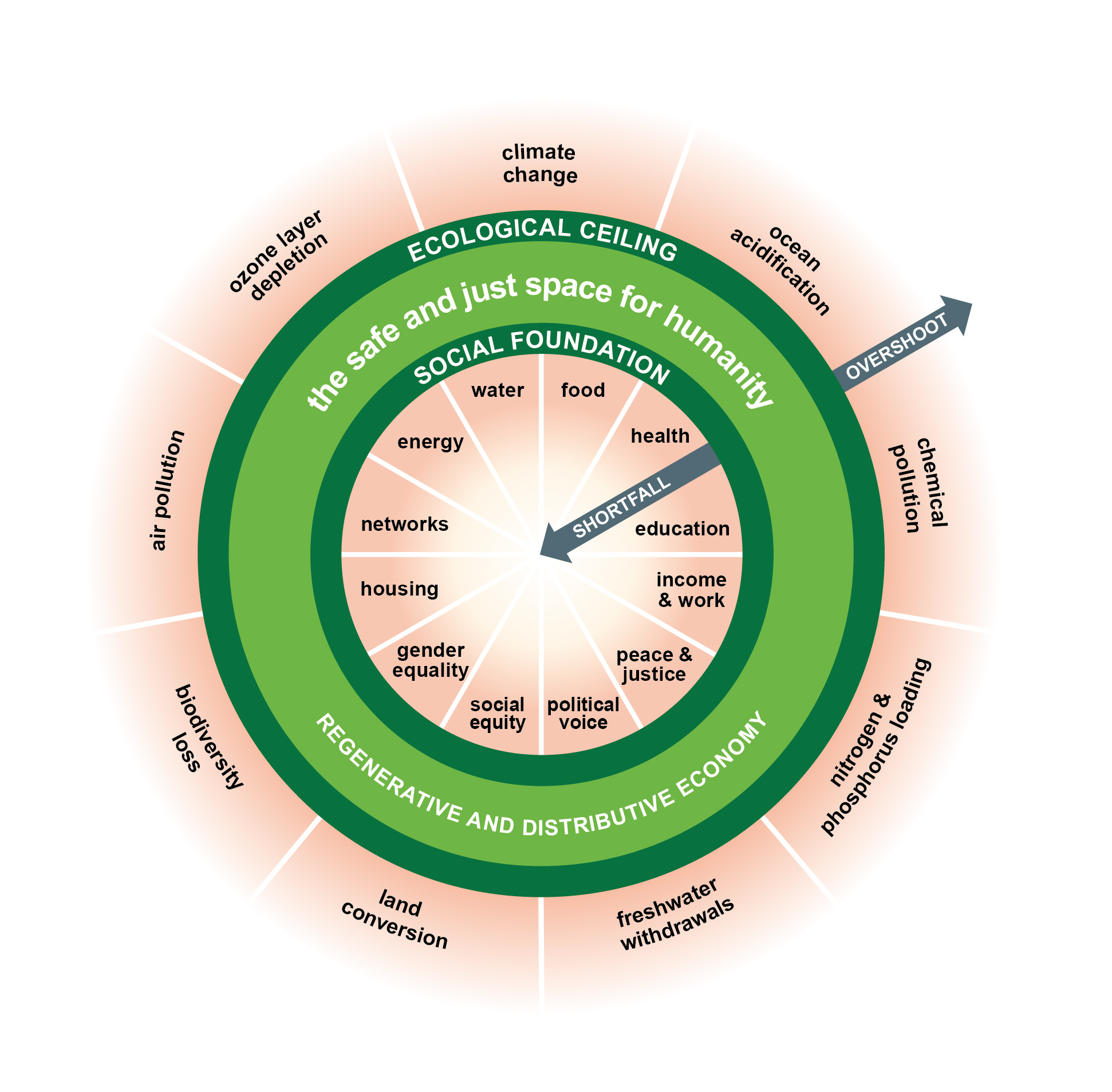 Environmental doughnut infographic